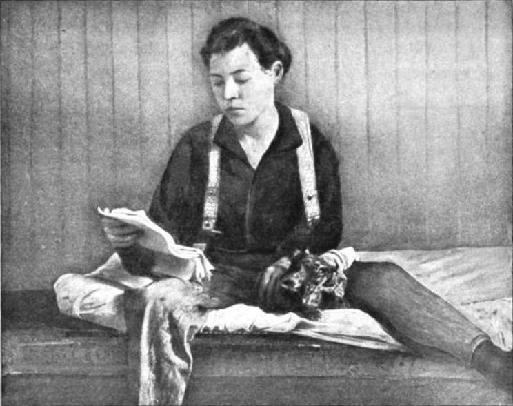 Pearl Hart seated in a jail cell